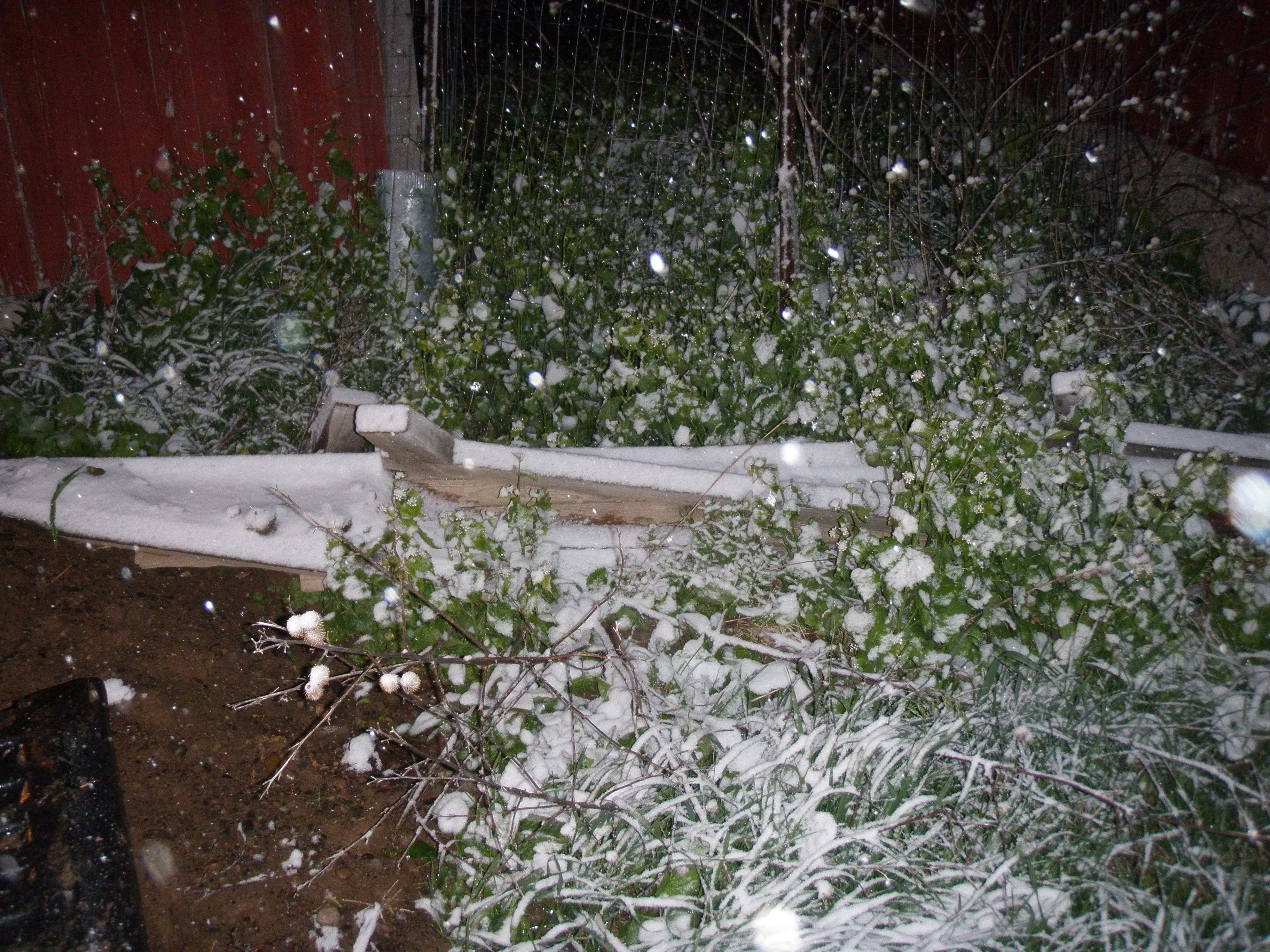 A snowfall with some accumulation on low thermal mass surfaces in the early morning of May 9 in Ontario County, Rochester, New York MSA.